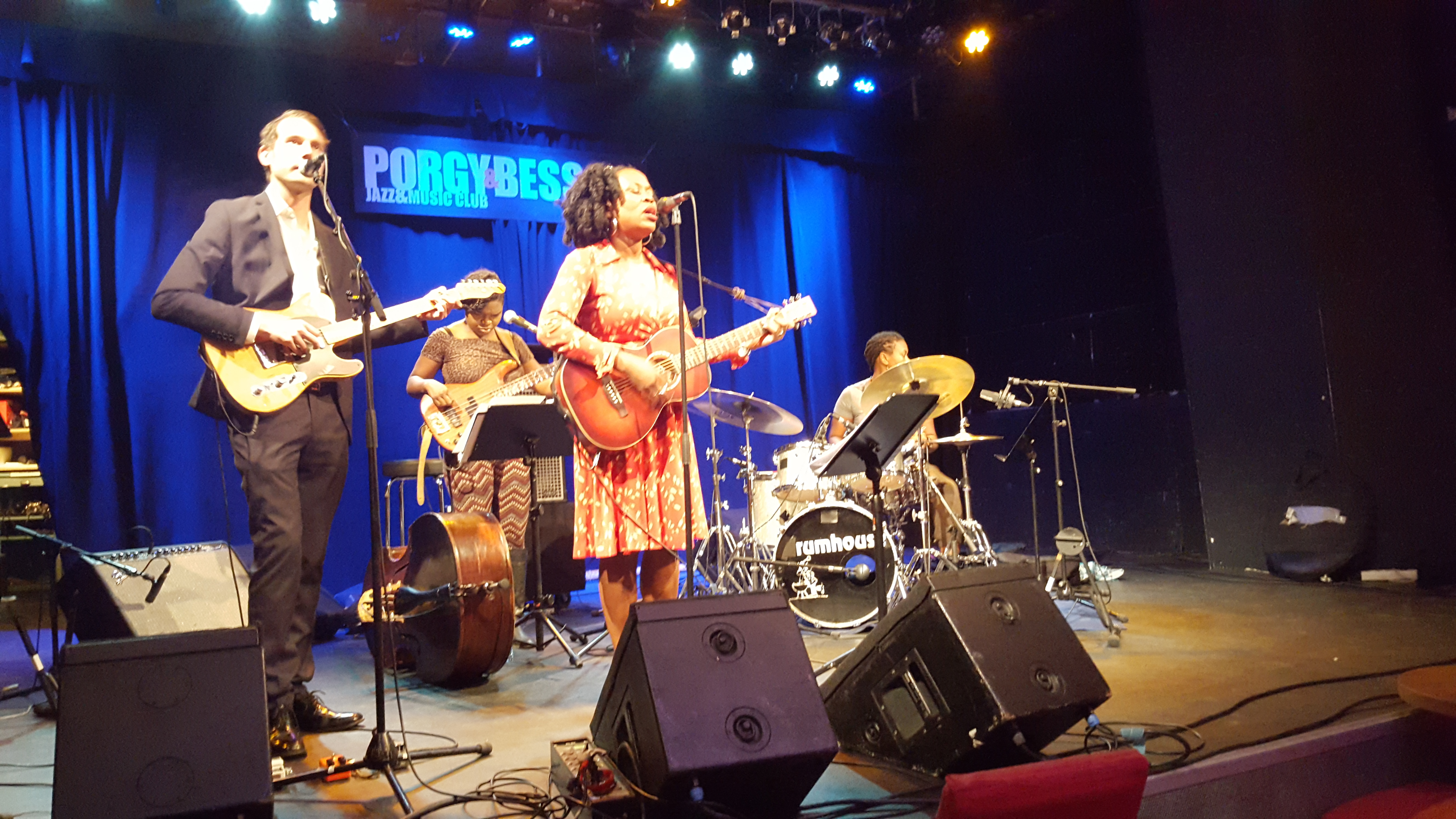 Queen Esther and The Blue Crowns during soundcheck at Porgy and Bess. Vienna, Austria -- September, 2015.